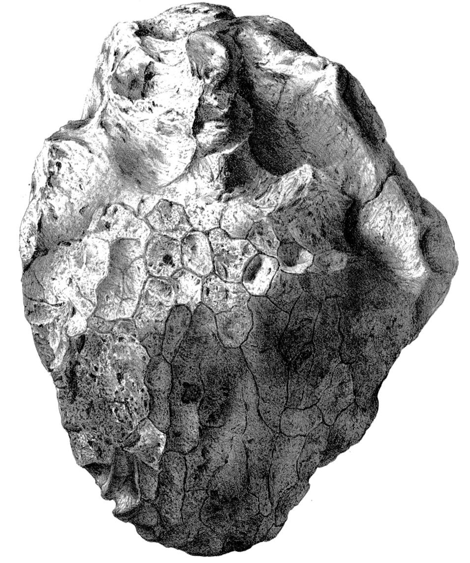 Lectotype dorsal vertebra of Ornithosis hulkei in anterior view.